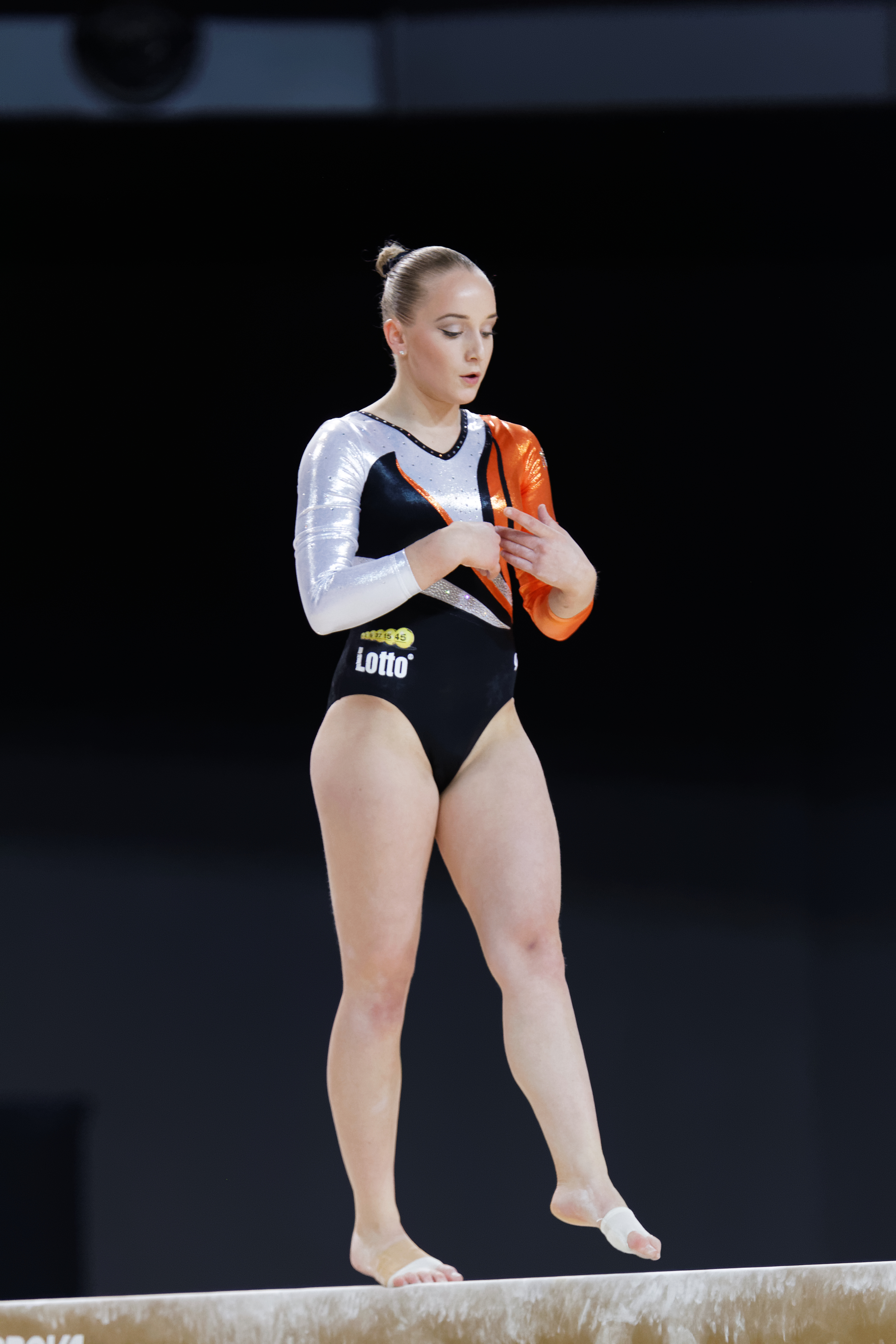 2015 European Artistic Gymnastics Championships. Bamance beam.